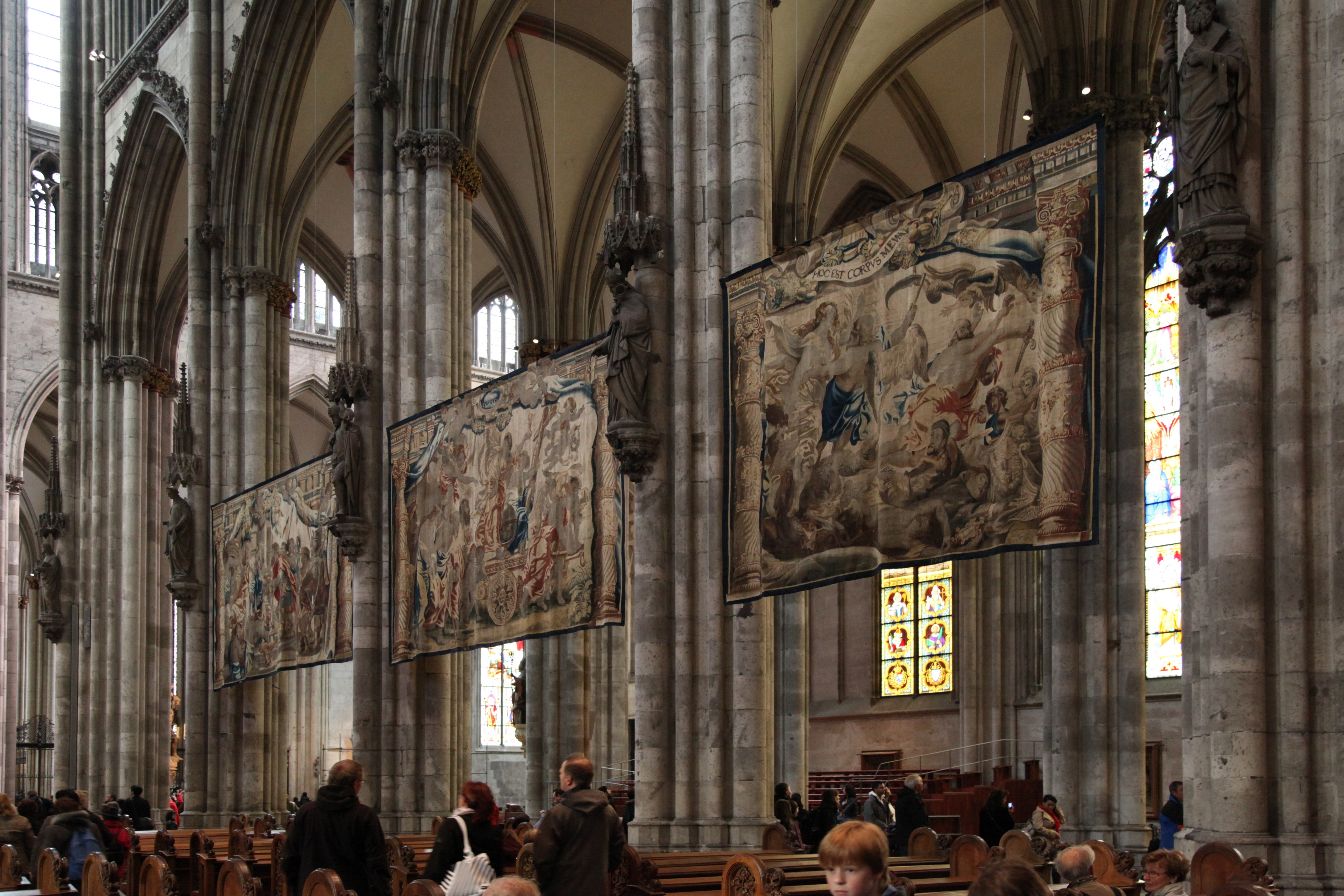 The nine pieces of baroque tapestry were designed by Peter Paul Rubens and show the “Triumph of the Eucharist“. Cologne Cathedral